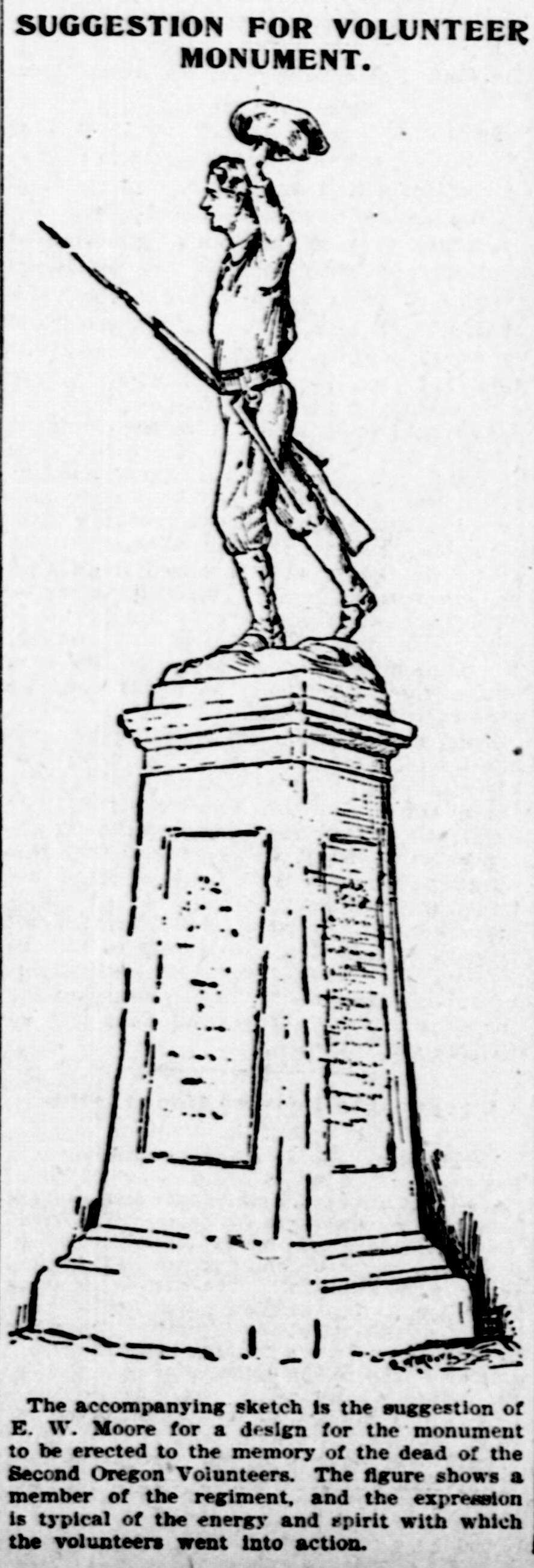 "The accompanying sketch is the suggestion of E.W. Moore for a design for the monument to be erected to the memory of the dead of the Second Oregon Volunteers. The figure shows a member of the regiment, and the expression is typical of the energy and spirit with which the volunteers went into action."